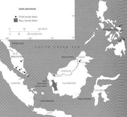 Distribution of Bauxite resources in Indonesia, Malaysia and the Phillippines according to the USGS in 1986